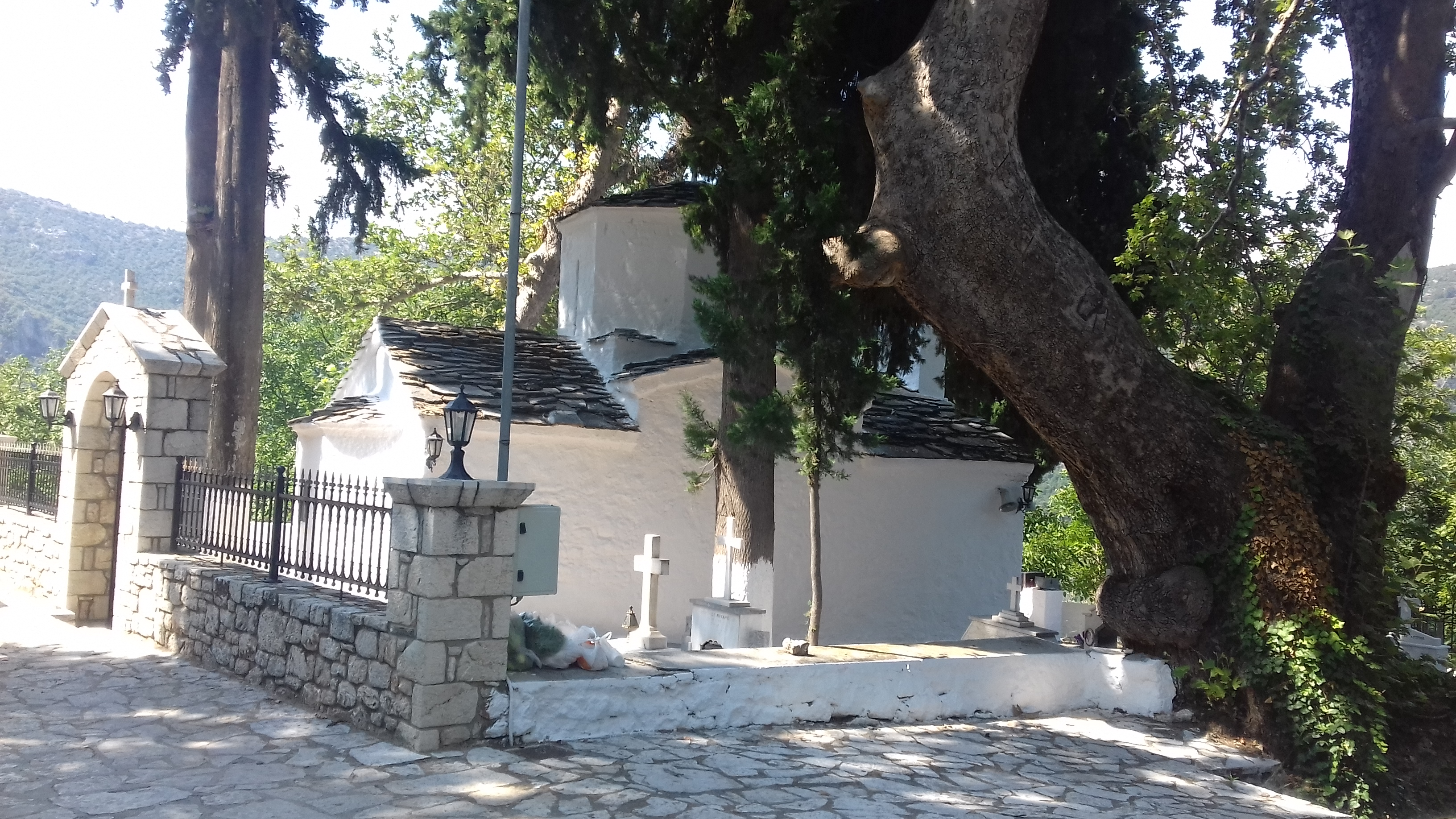 Church of Panagia, Oreino Korakovouni village, Arcadia Greece